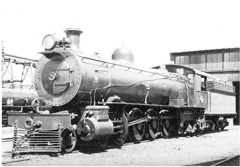 South African Railways Class 4 4-8-2 no. 1478, ex Cape Government Railways Mountain no. 851